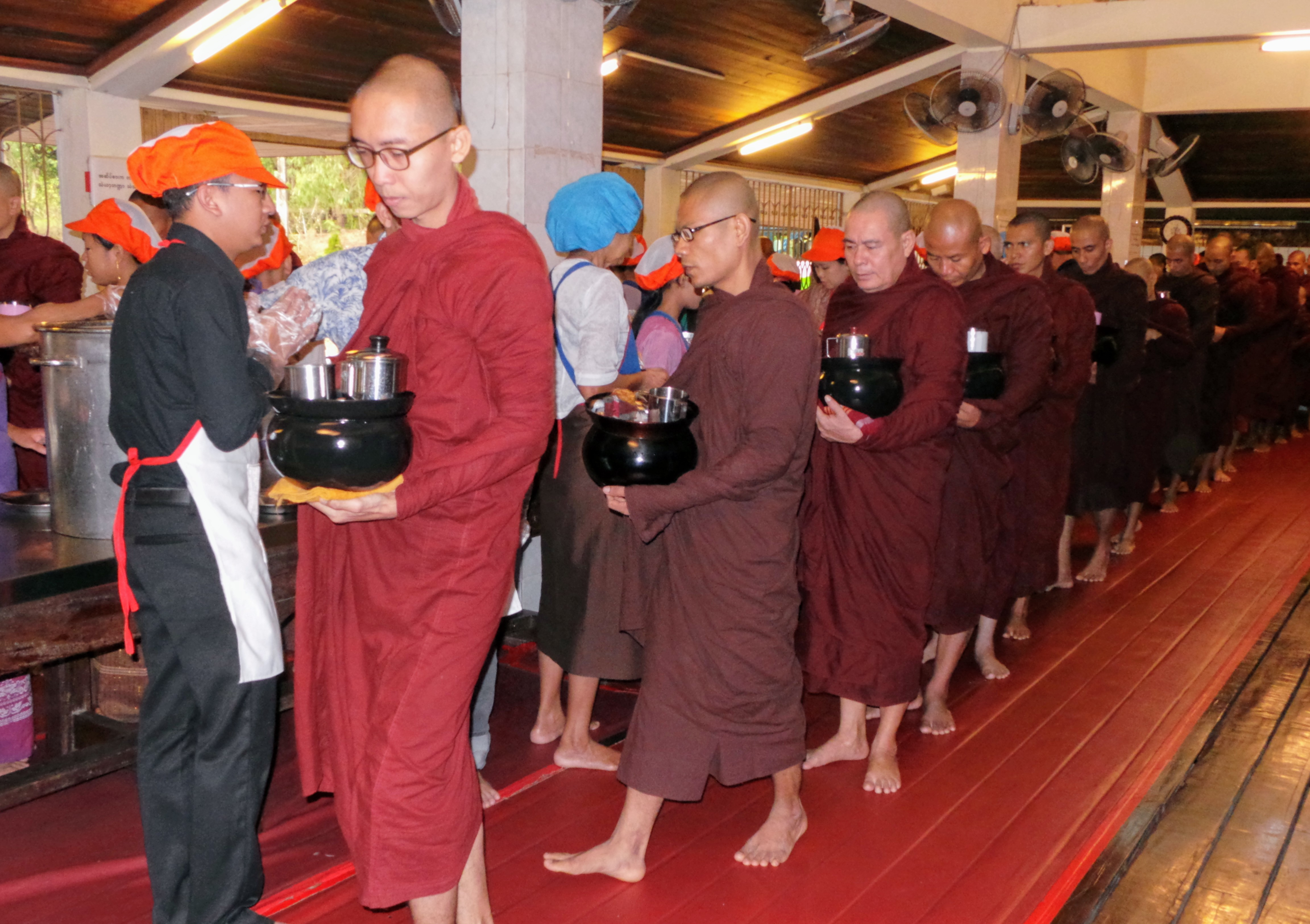 Monks Offering Breakfast at Pa-Auk Forest Monastery, Pa-Auk, Mon State မြန်မာဘာသာ: ဖားအောက်တောရရှိ သံဃာတော်များ ဆွမ်းလောင်းရုံတွင် အရုဏ်ဆွမ်းခံကြွနေစဉ်၊ ဖားအောက်၊ မွန်ပြည်နယ်